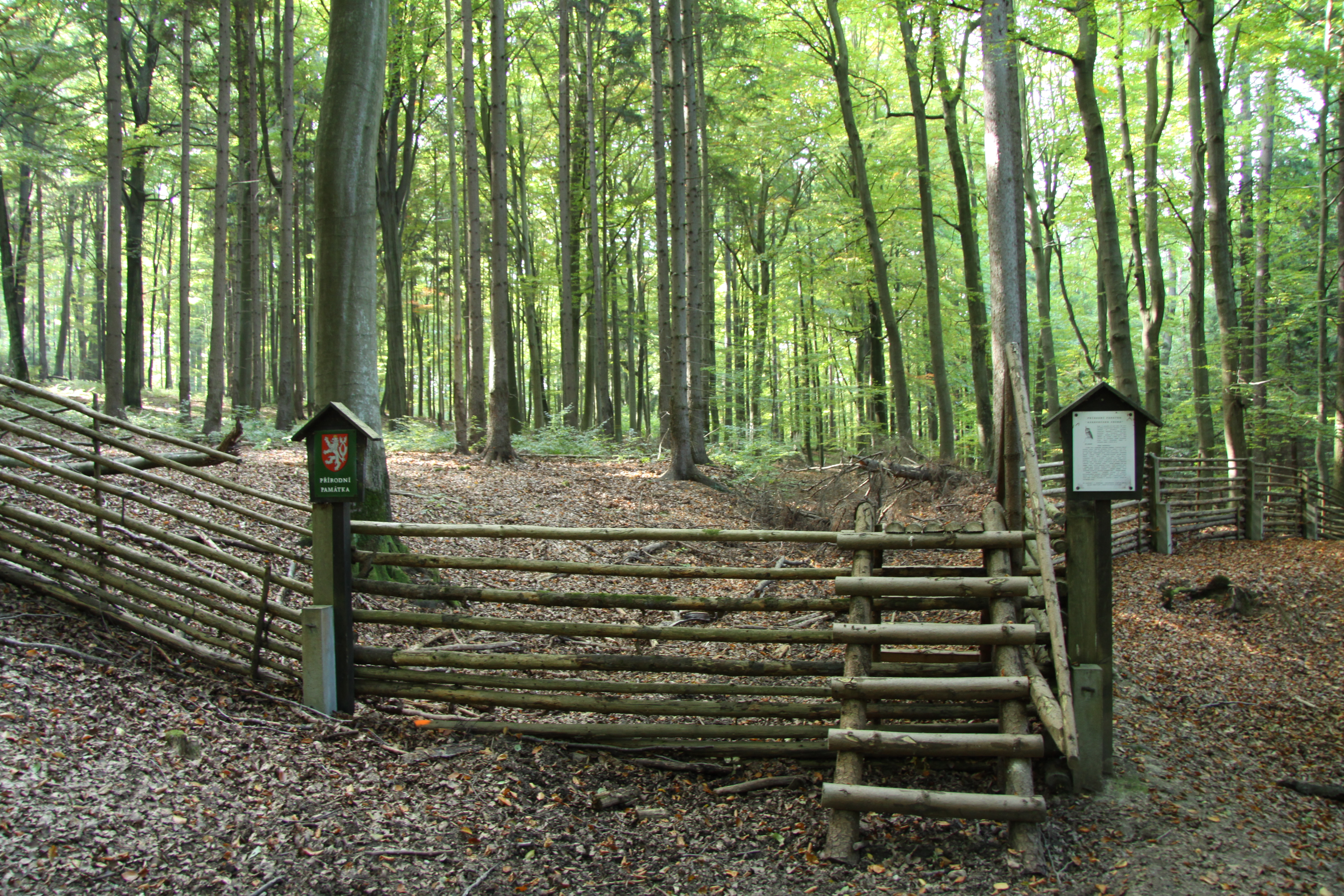 Natural monument Rukávečská obora, Písek District, Czech Republic